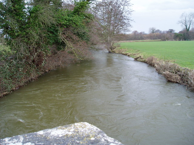 Afon Clywedog. The river Clywedog, north-east of Llanynys, nearly full to bursting.